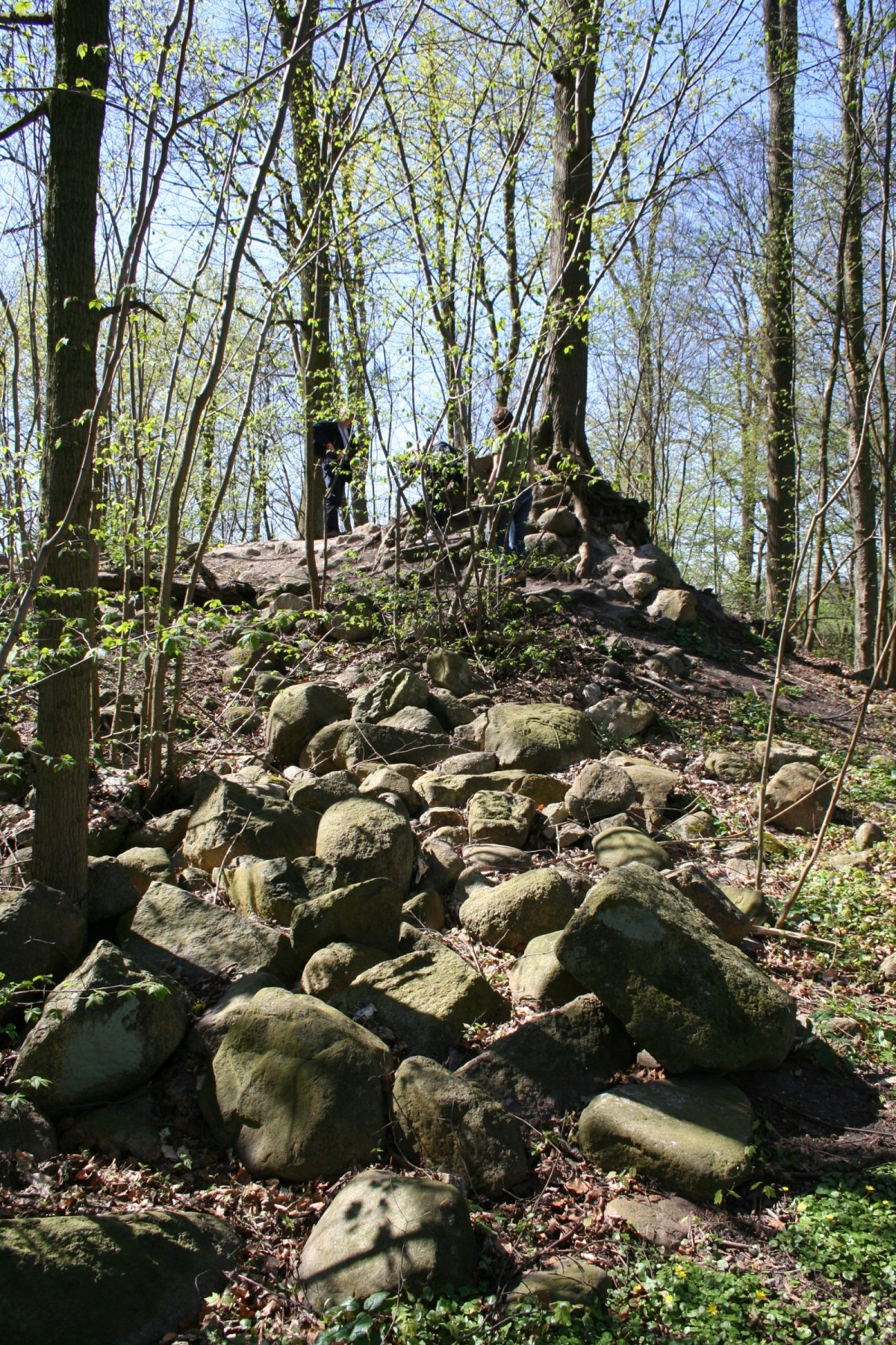 Remains of Linau Castle